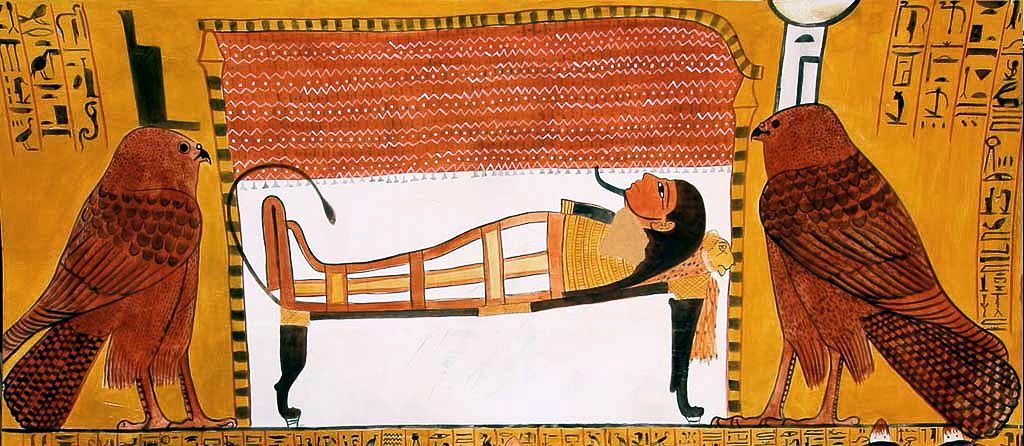 Isis, left, and Nephthys take the form of kites as they flank the mummy of Sennedjem, the owner of this tomb.